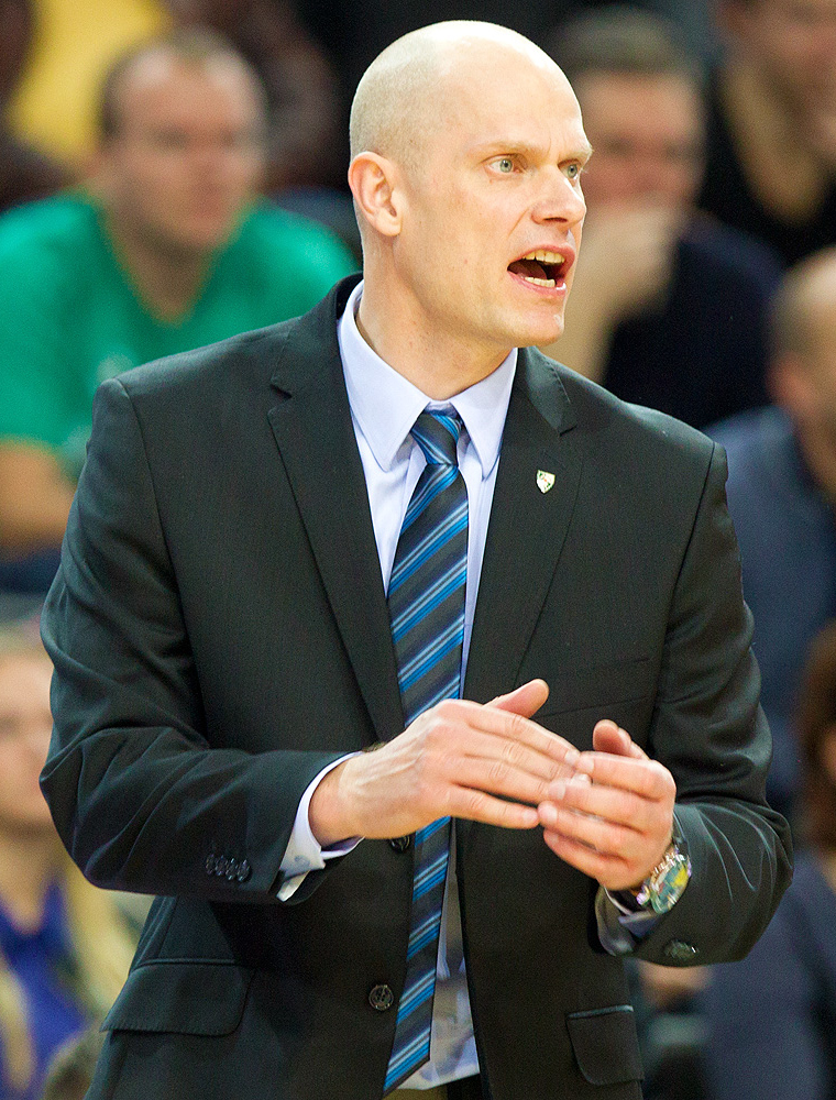 Basketball coach Saulius Štombergas with Žalgiris.